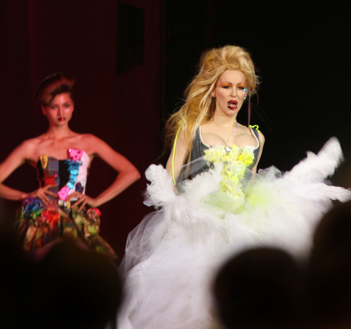 Opening show of the Life Ball 2007 at the Rathausplatz in Vienna, Austria. Heatherette - fashion show.